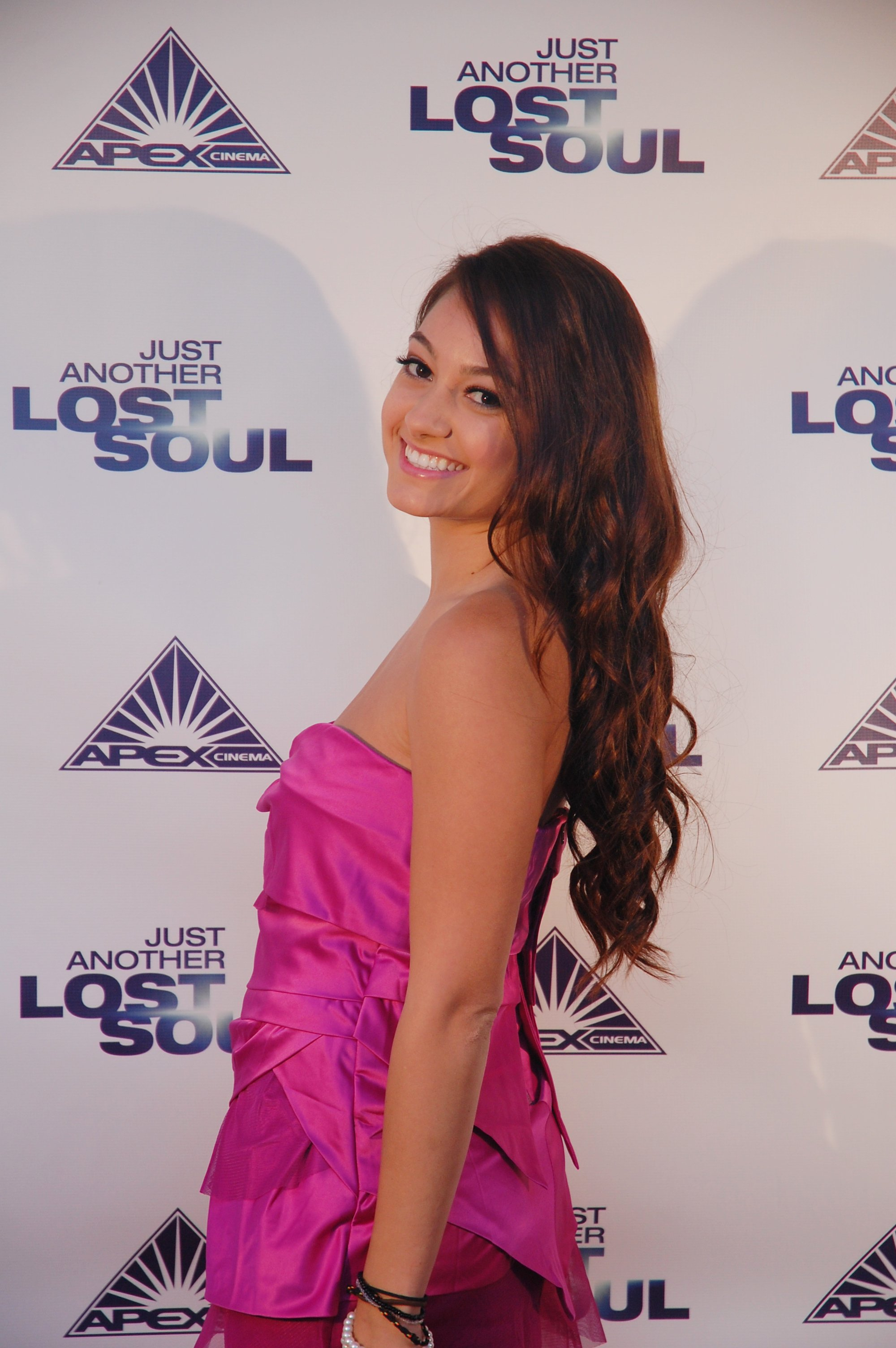 Patricia Ashley at the Premier of Just Another Lost Soul! Email sent to with permission from author to place this photo into public domain. David D'alessandro is the photographer and original copyright holder for this photo.